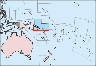 Map of the Solomon islands